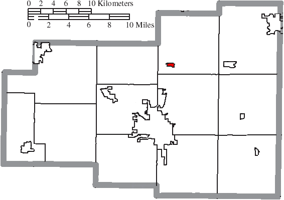 Map of the municipal and township boundaries of Allen County, Ohio, United States, as of the 2000 census, with the location of the village of Cairo highlighted. Township borders are shown only in unincorporated areas in order to differentiate incorporated and unincorporated areas more clearly.